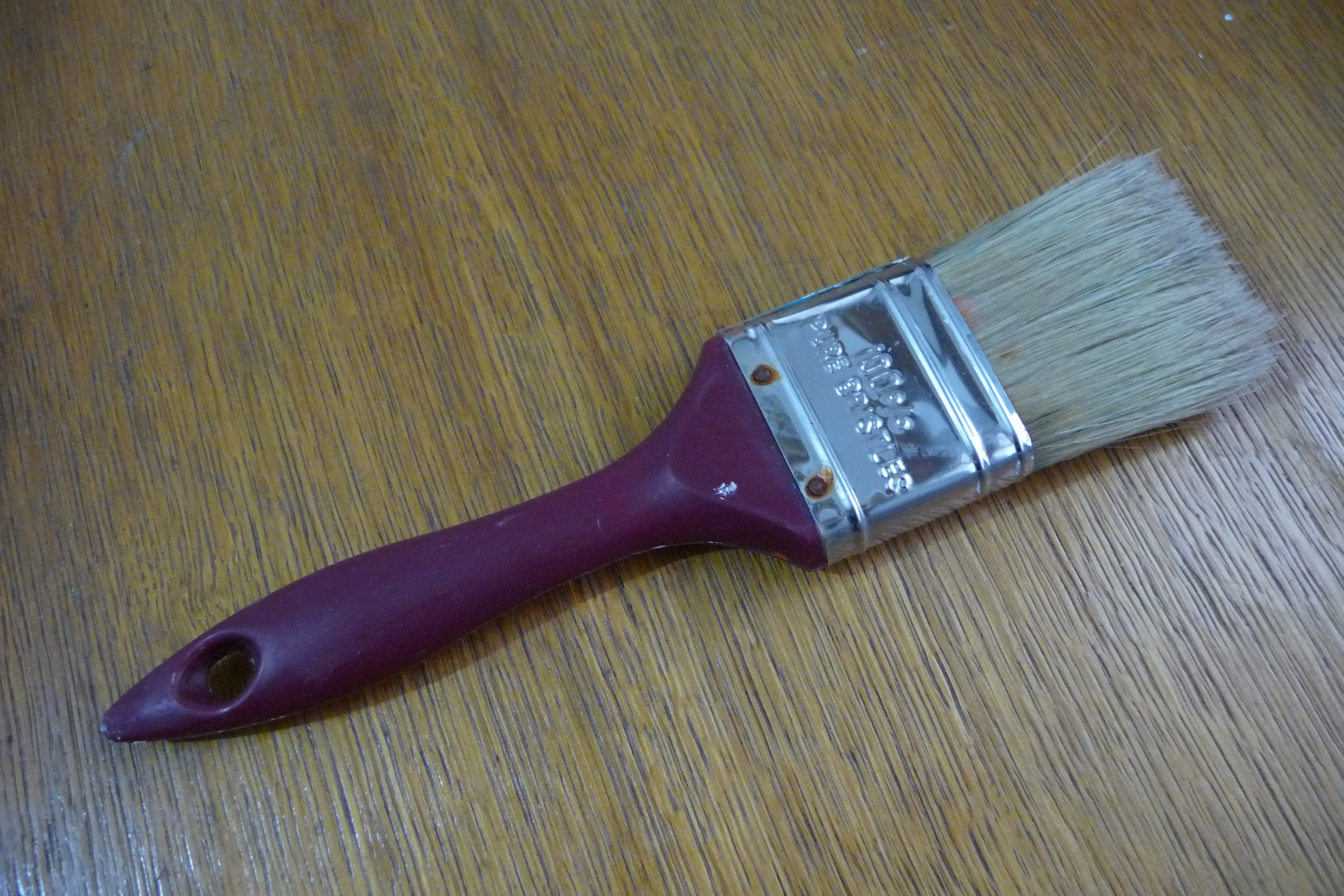 Paint brush and painting walls with red lid